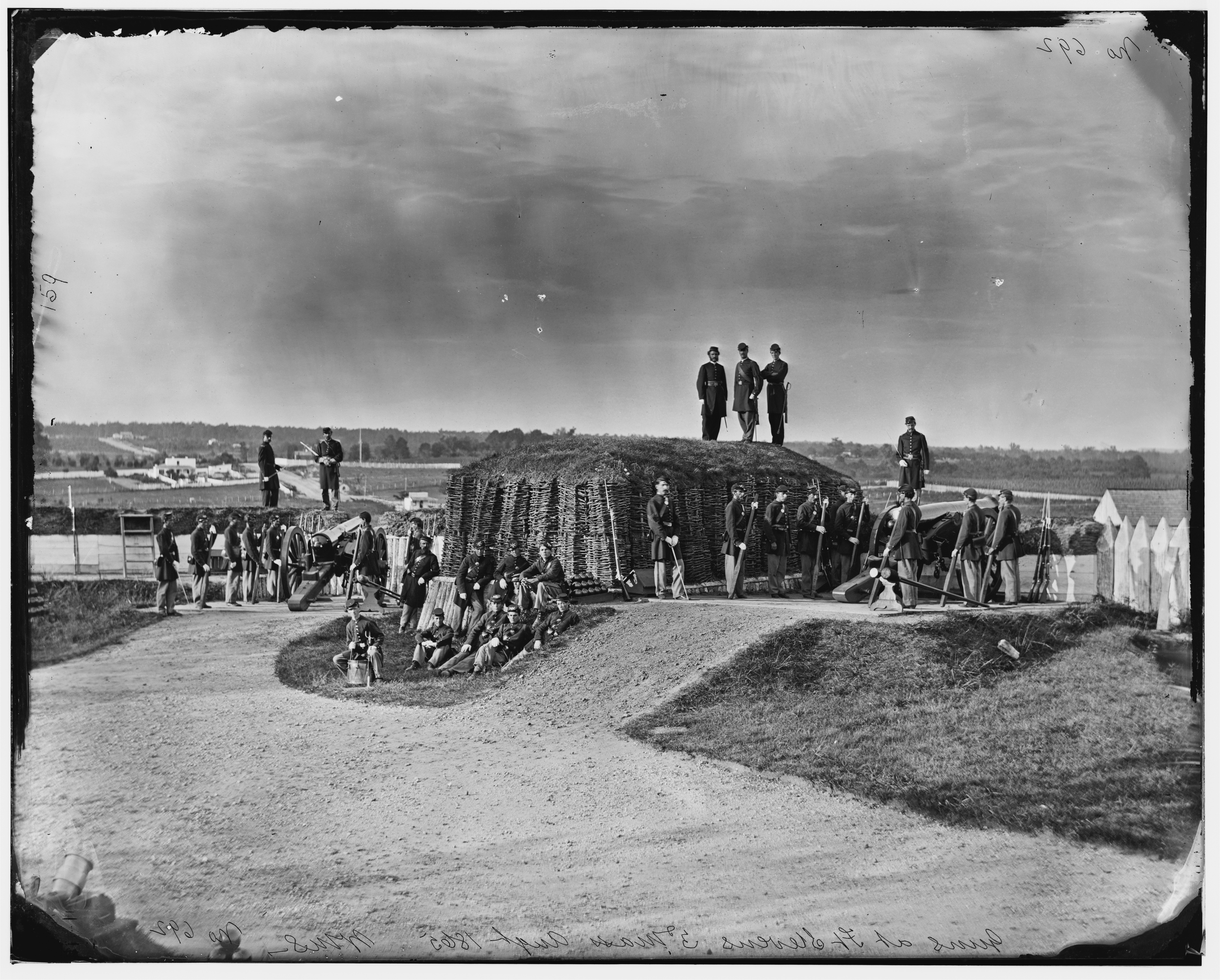 Title: District of Columbia. Detachment of Company K, 3d Massachusetts Heavy Artillery, by guns of Fort Stevens Abstract: Selected Civil War photographs, 1861-1865 (Library of Congress) Physical description: 1 negative : Notes: Artillery (Troops); Forts & fortifications.